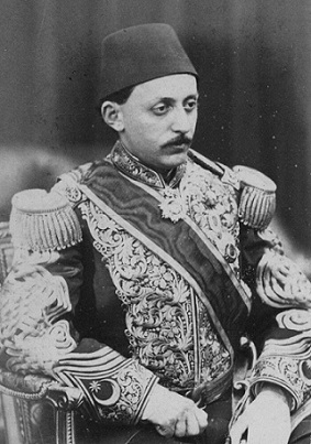 Murad V (21 September 1840 – 29 August 1904)